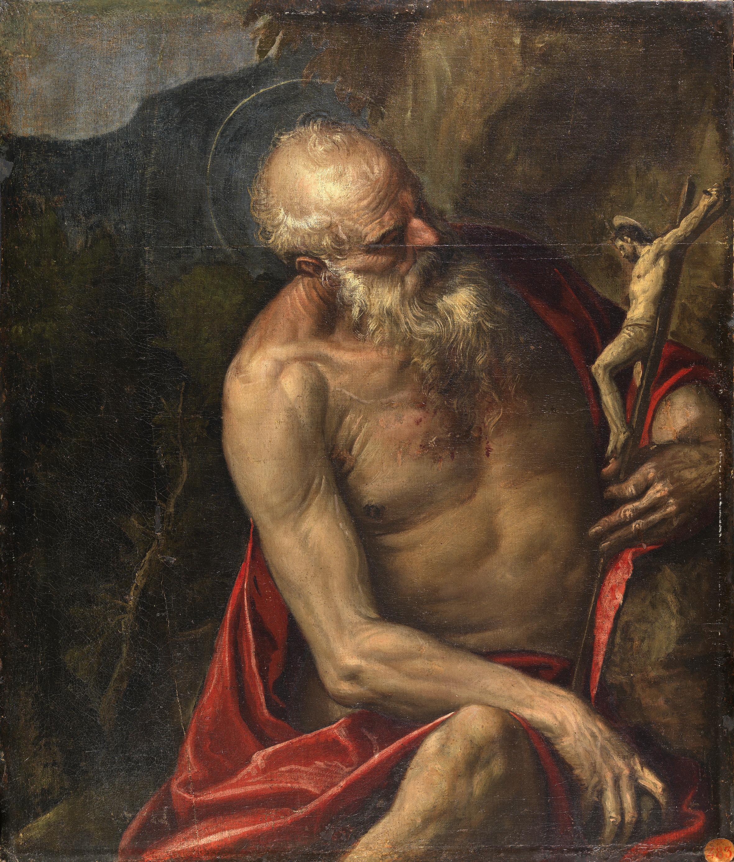 Saint Jerome meditatinglabel QS:Len,"Saint Jerome meditating"label QS:Les,"San Jerónimo meditando"label QS:Lpl,"Medytujący św. Hieronim"